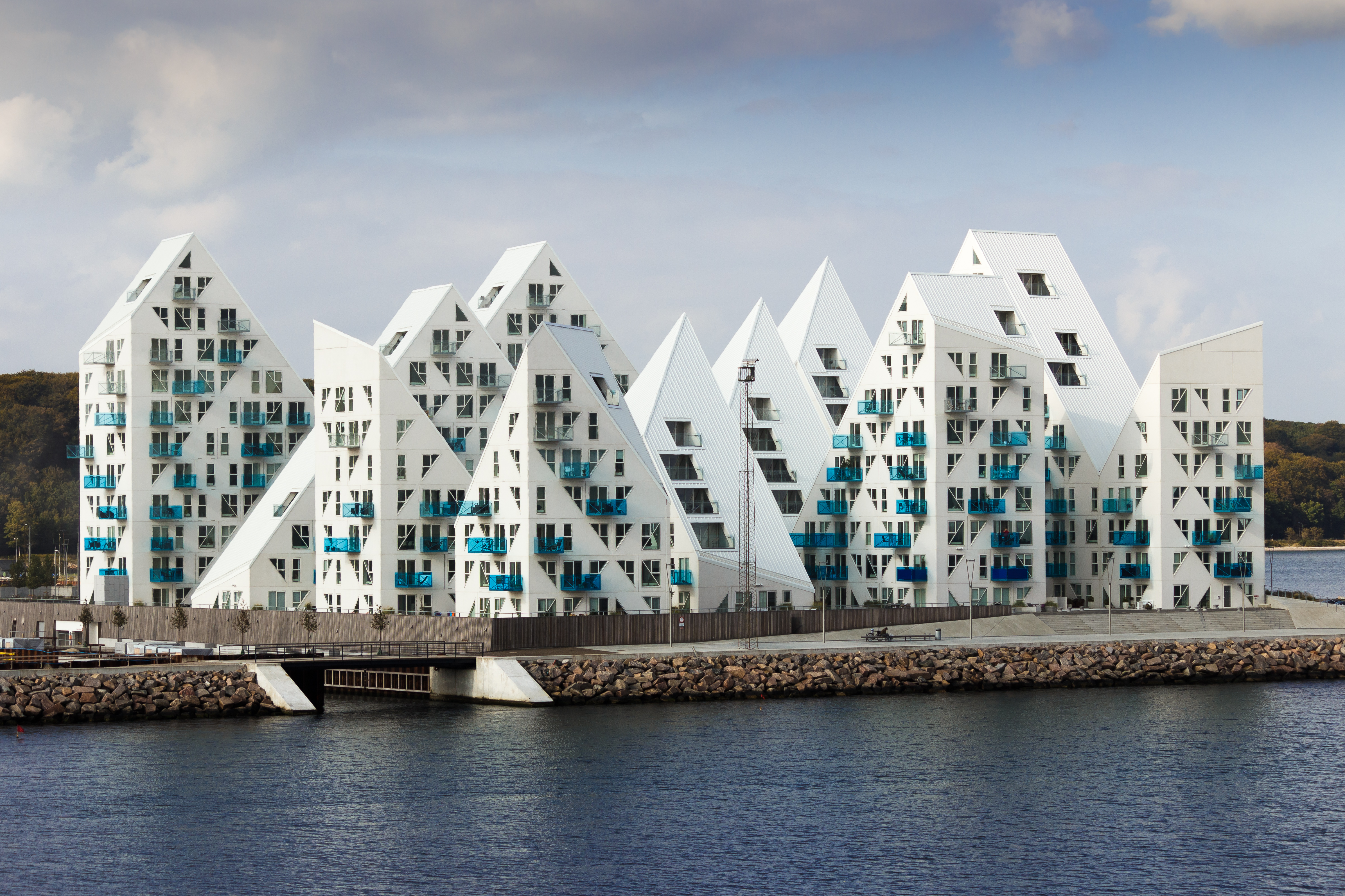 Isbjerget as seen from the high speed ferry Århus-Sjællands Odde on the way out of the harbour in Århus, Denmark.